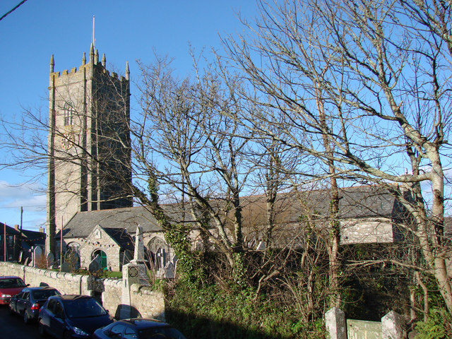 Paul Church